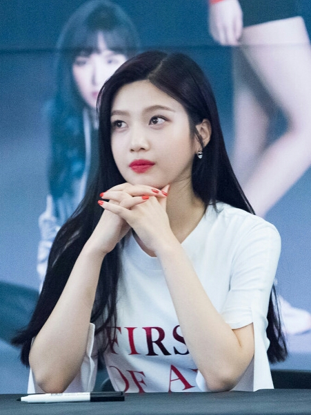 Joy Park at Skechers Fansing on August 22, 2017.